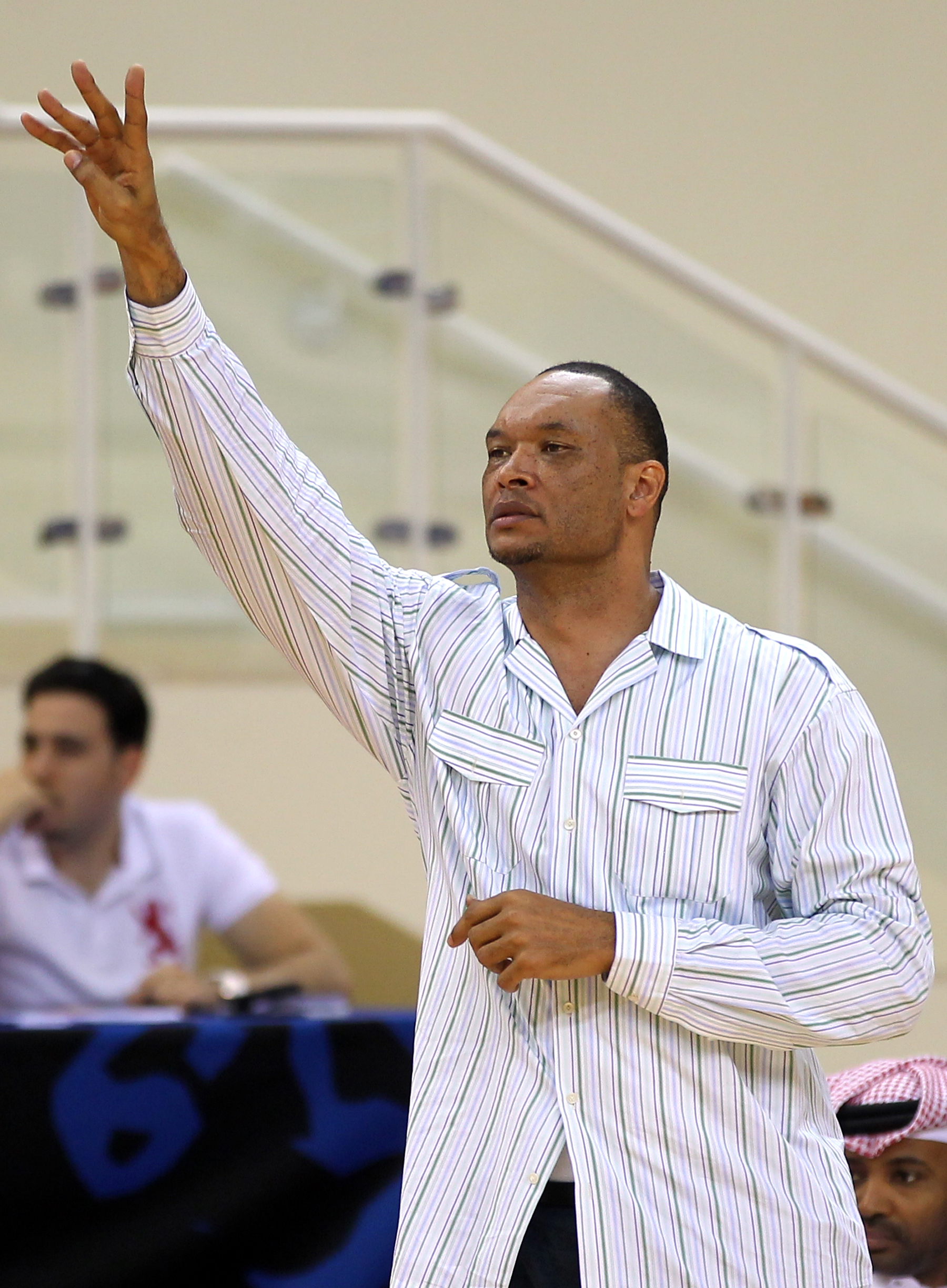 Al Rayyan basketball team's American coach Bryan Rowsom gestures during their Heir Apparent's Cup Championship. Picture by Mohan